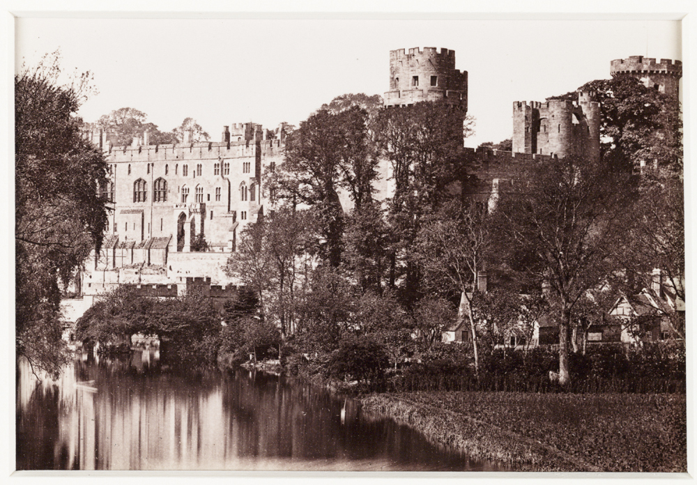 Creator: Francis Bedford (1816 - 1894) Date: c. 1880 Format: Albumen print Collection: National Media Museum Collection Inventory no: 1990-5037_B1_0533 Standing at the edge of the River Avon, parts of the castle date back to the thirteenth century, with other buildings added throughout the following five centuries.